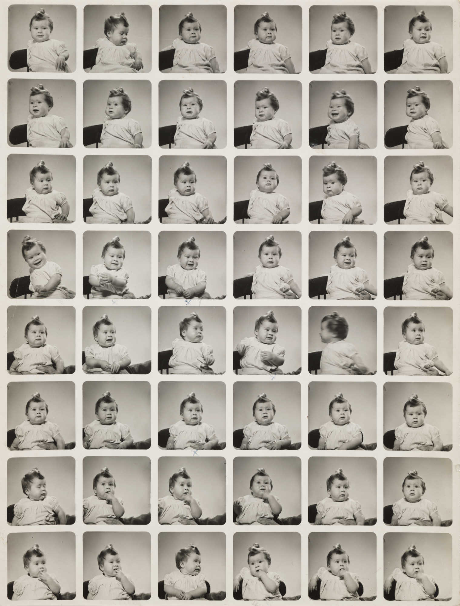 Photographer Unknown; Gelatin Silver Collection of National Media Museum Polyfoto originated in Denmark with the first British studio opening in Selfridges, London in 1933. Polyfoto literally means ‘many photographs’ – and the distinctive photographs showing 48 different poses found their way into millions of wallets and handbags. After receiving the proof sheet customers were invited to select the pose they would like enlarged. The company slogan was ‘One of them must be good!’